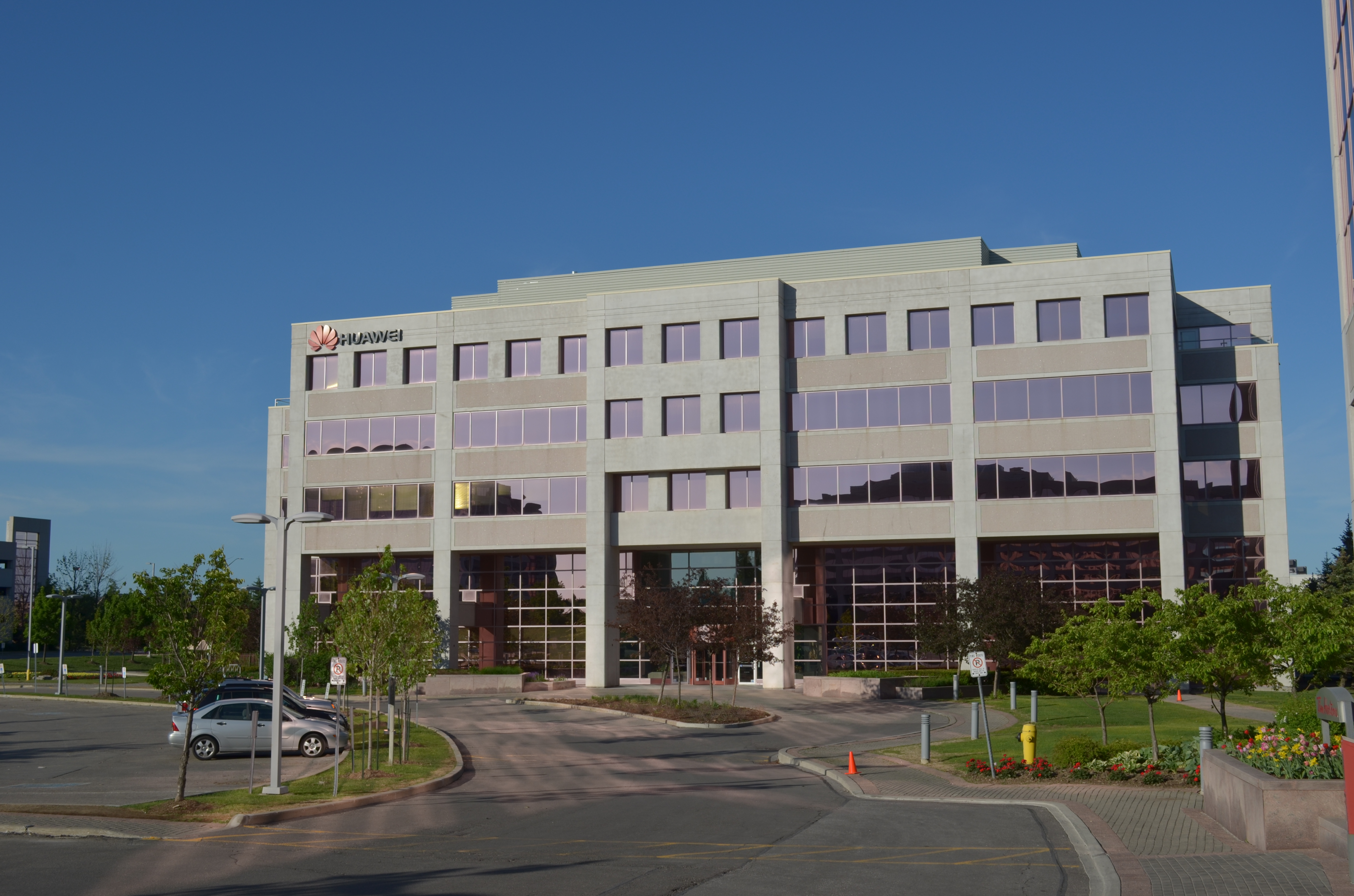 Huawei Canada